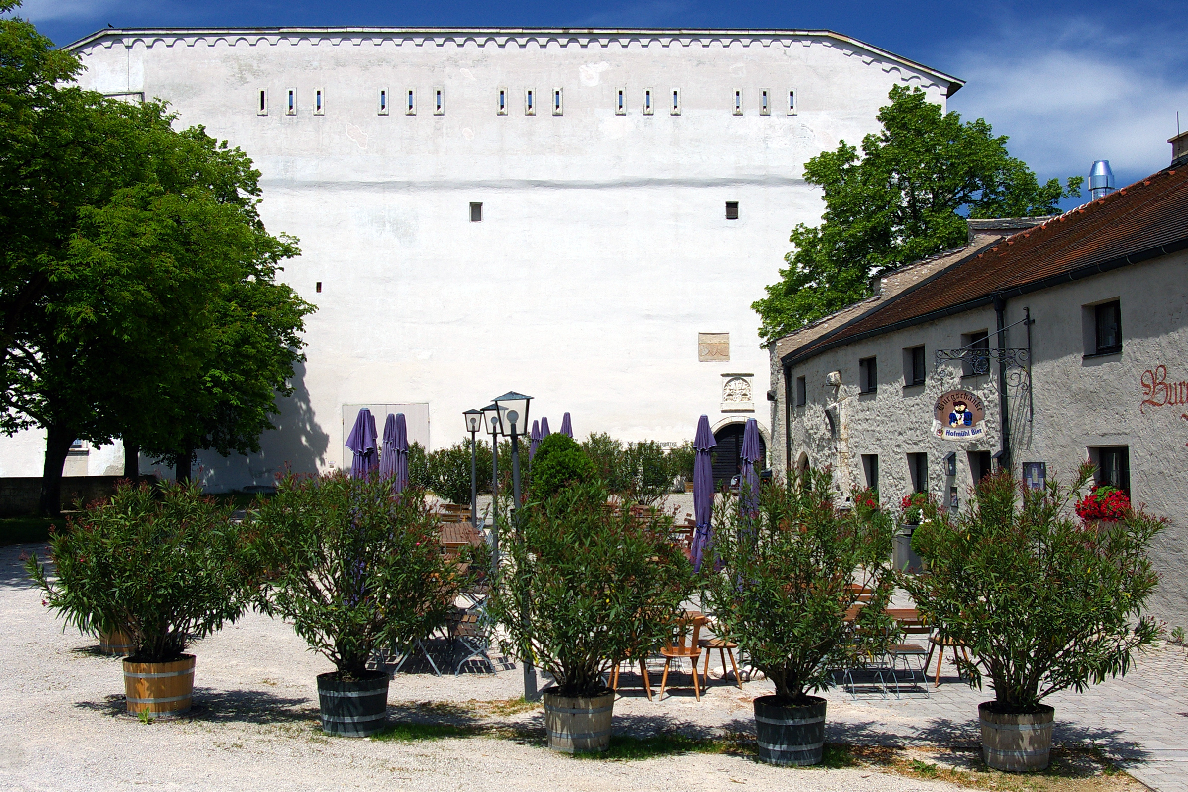 Eastside of the Gemmingenbau at the Willibaldsburg / Eichstaett / Upper Bavaria